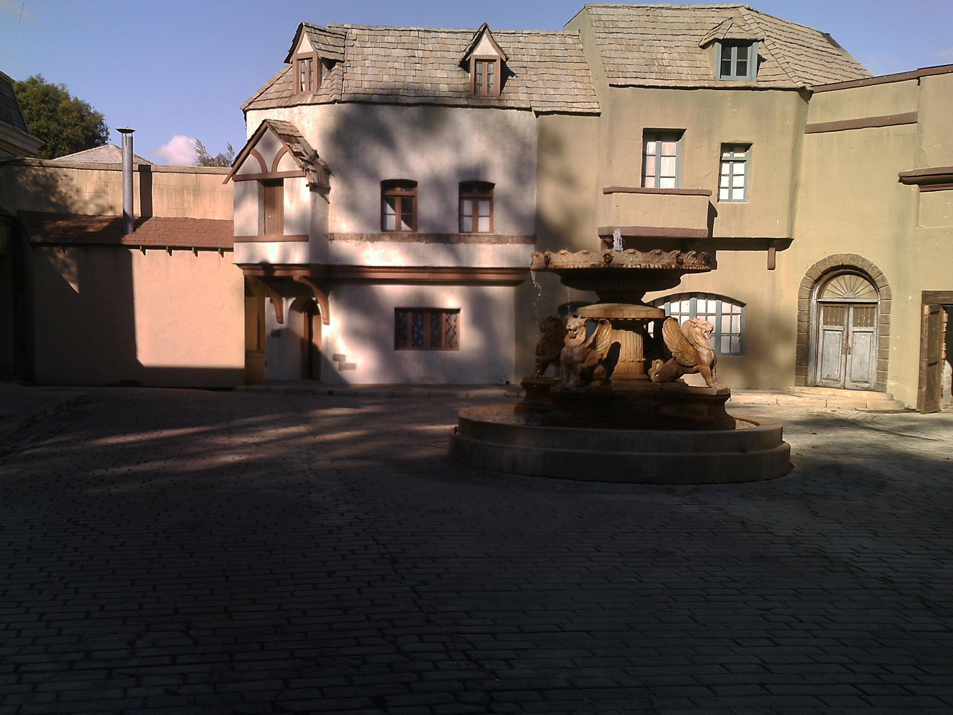 Set of the movie The Hunchback of Notre Dame at the Universal Studios Hollywood